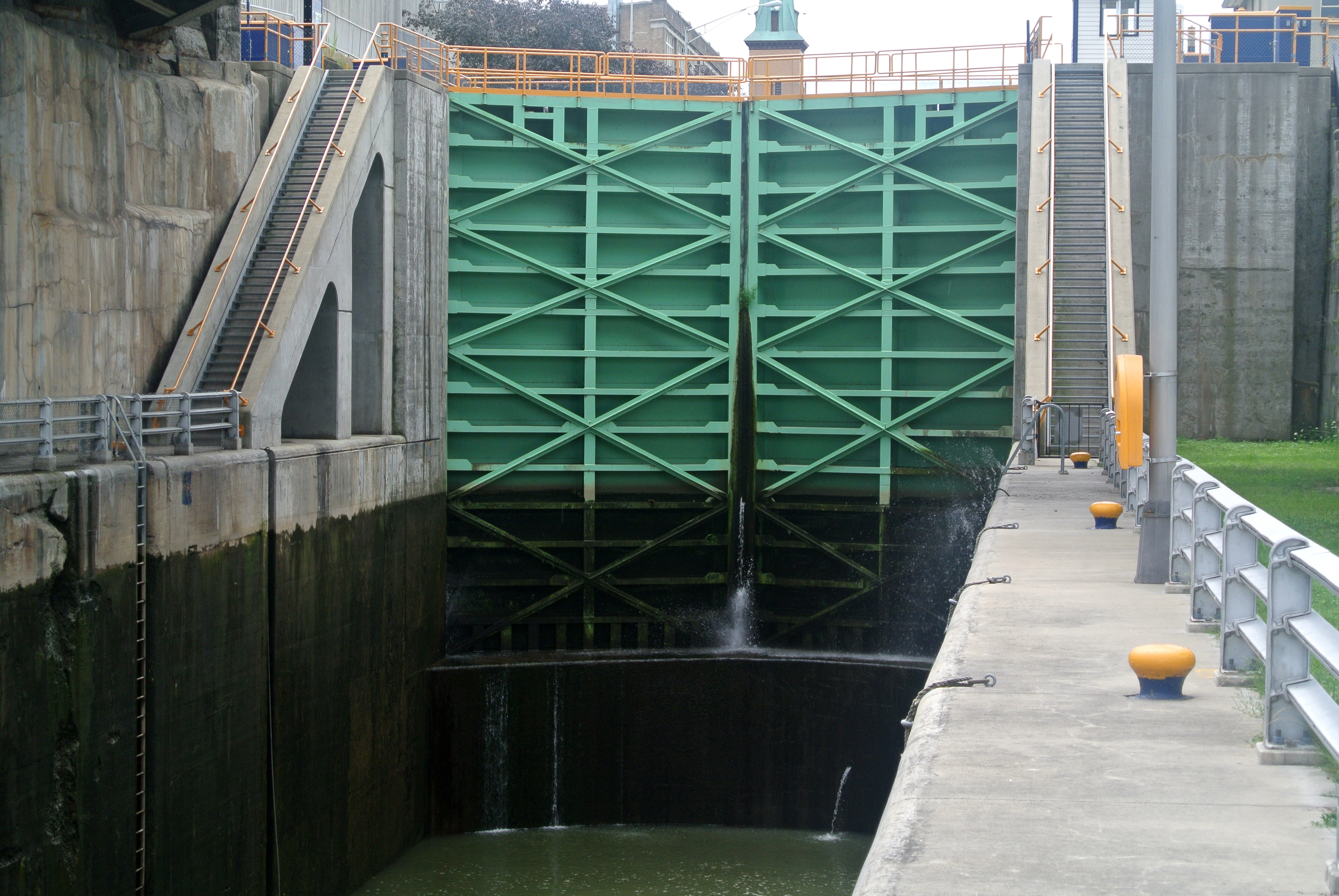 Erie Canal lock in Lockport, New York.